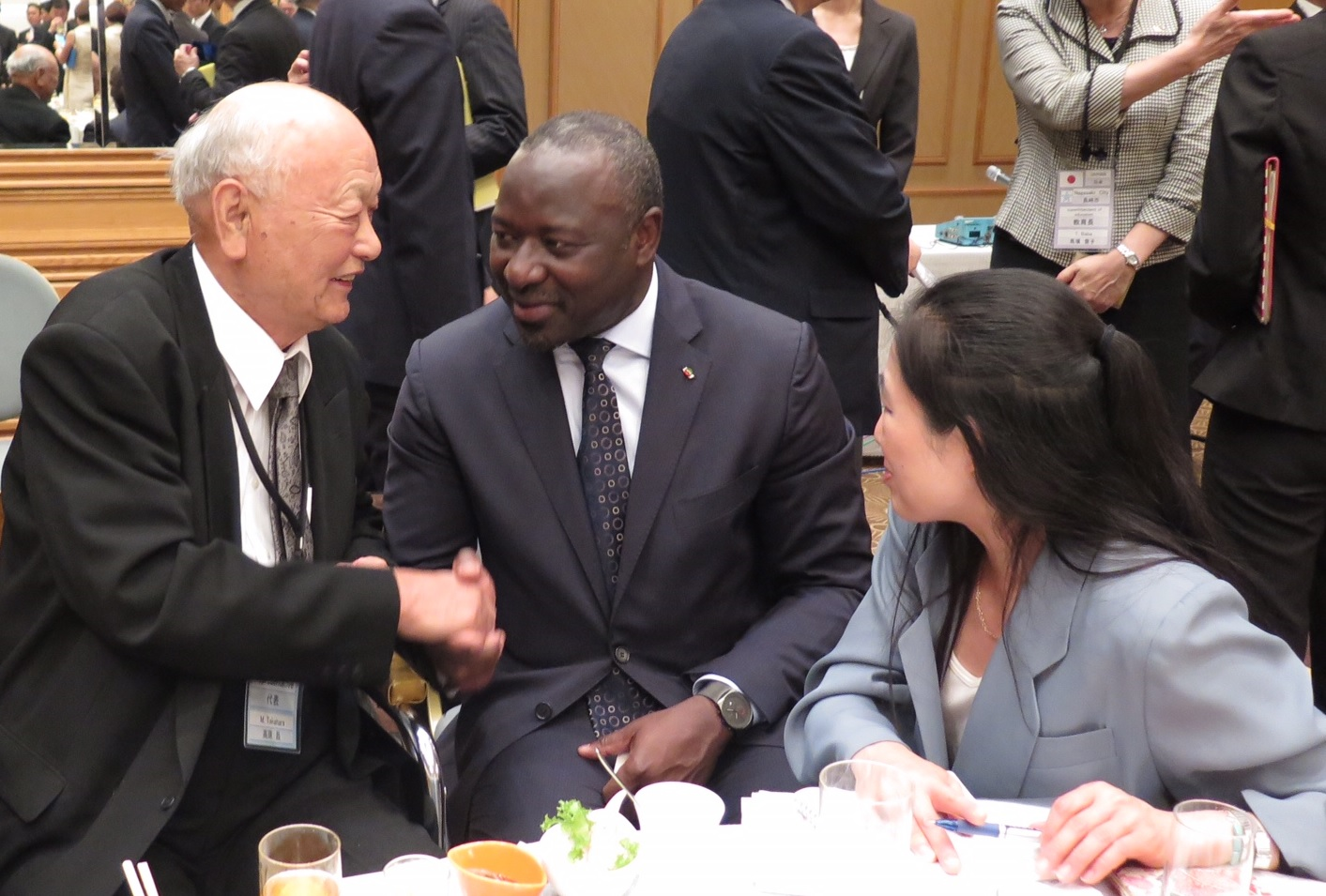 Hibakusha Makoto Takahara, Executive Secretary Lassina Zerbo met, and Takemi Chiku, Coordinator of CTBTO Legal and External Relations